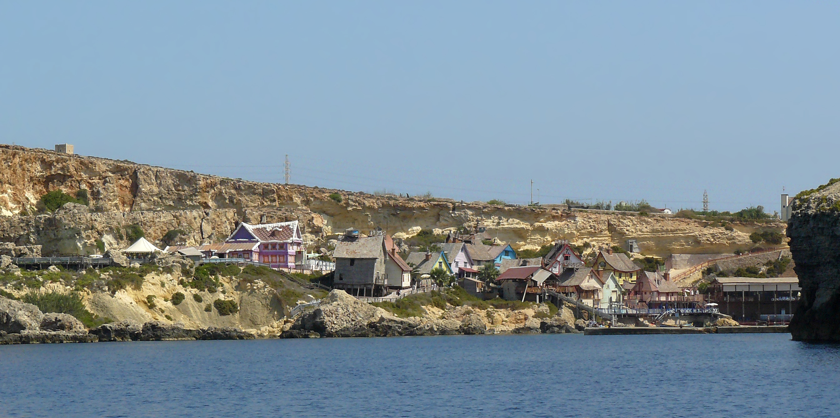 Popeye Village viewed from the sea. Malta.